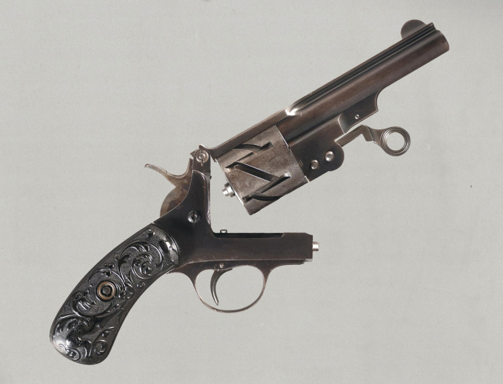 Mauser M78 2nd model